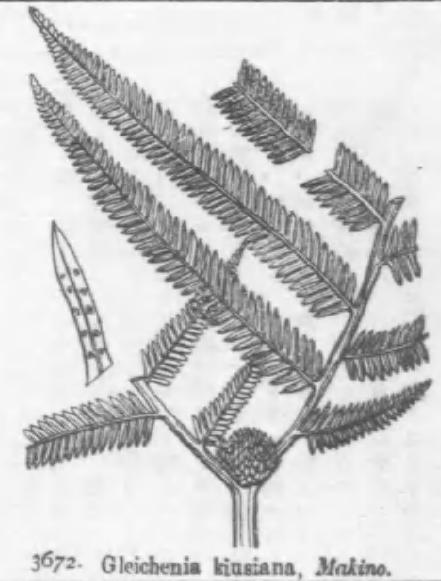 Gleichenia laevissima Species issue: NCBI link: Gleichenia laevissima The Plant List link: Gleichenia laevissima Christ (Syn. Diplopterygium laevissimum (Christ) Nakai) Considered a synonym (Source: ) The Plant List link: Diplopterygium laevissimum (Christ) Nakai (Source: ) Tropicos link: Gleichenia laevissima Christ (Syn. Diplopterygium laevissimum (Christ) Nakai) (+ sub-taxa)